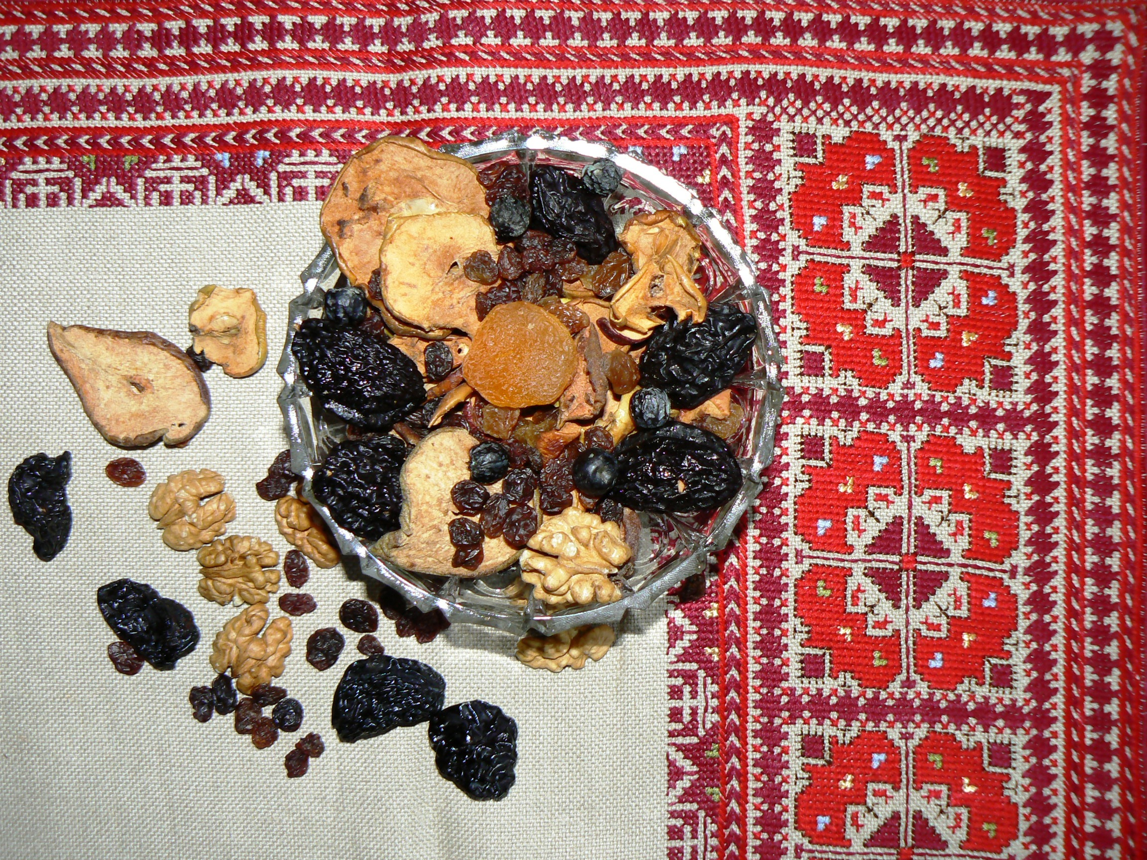 Dried fruits for the preparation of "oshav"